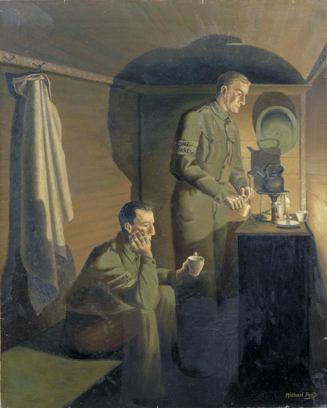 Two Home Guard members, in uniform, inside a small wooden hut, brewing tea by candlelight.